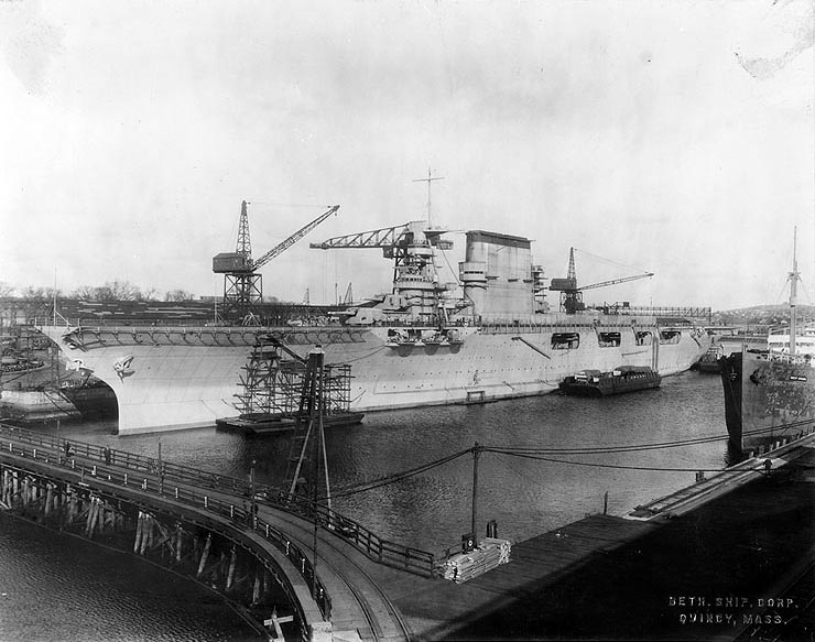 USS Lexington (CV-2) In the final states of fitting out, at the Bethlehem Steel Company shipyard, Quincy, Massachusetts, in November 1927. Merchant ship partially visible at right is the S.S. West Grama, which served as USS West Grama (ID # 3794) in 1919. U.S. Naval Historical Center Photograph.